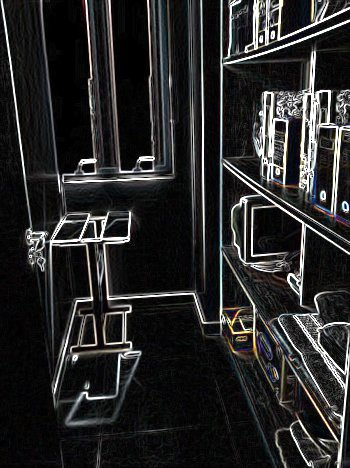 Work in the space